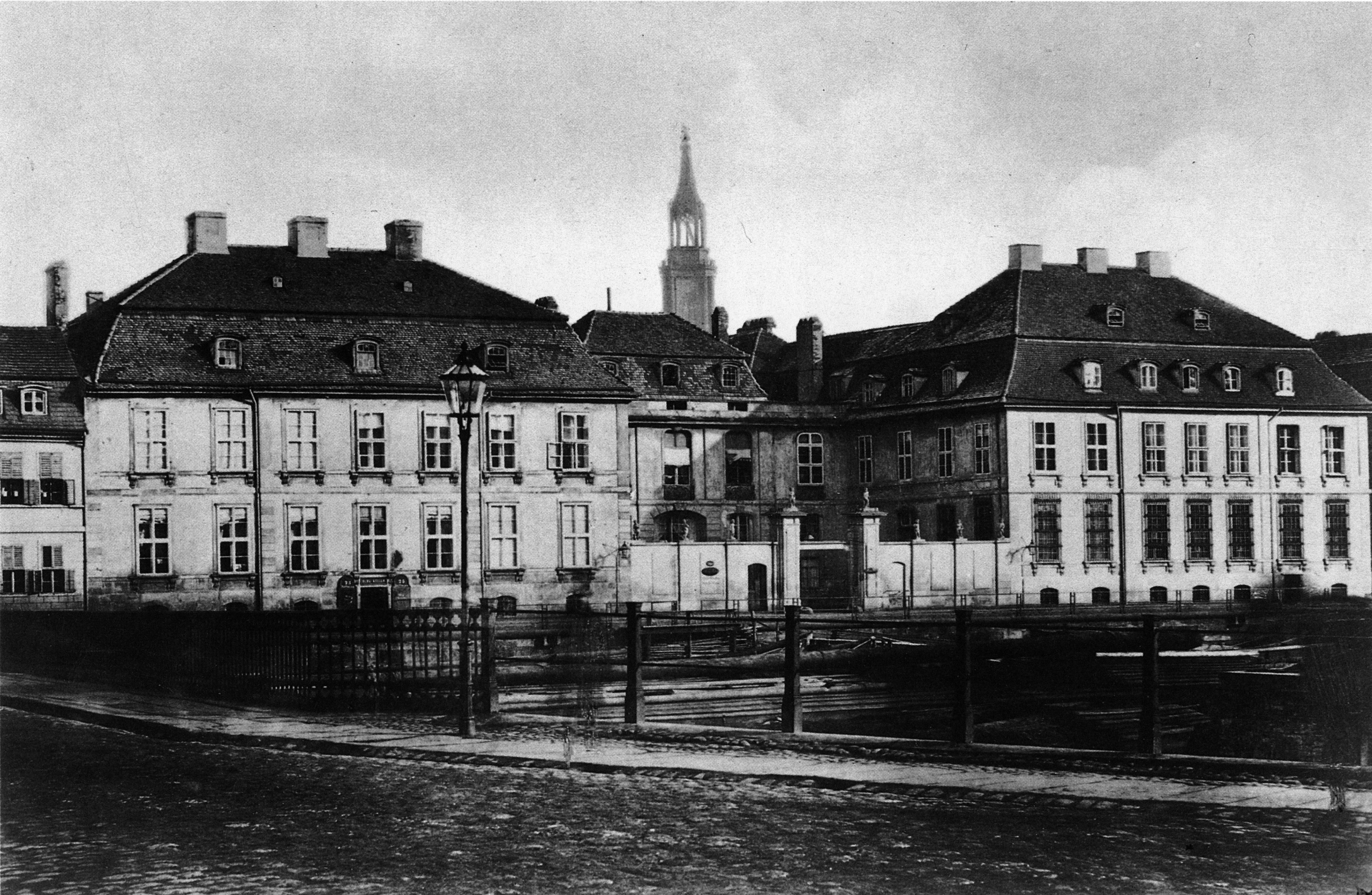 The Palais Itzig in Old Berlin on the corner Burgstraße and Neue Friedrichstraße. After 1859 the new Berlin Stock Exchange was built at this place.